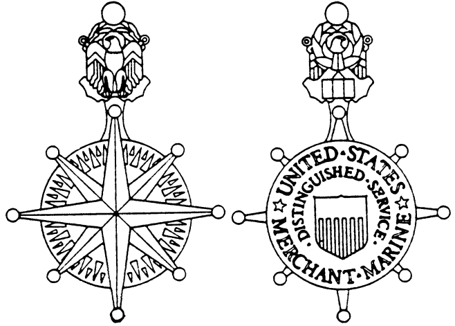 Line drawing of the Merchant Marine Distingusihed Service Medal as featured on the Department of Defense specification sheet